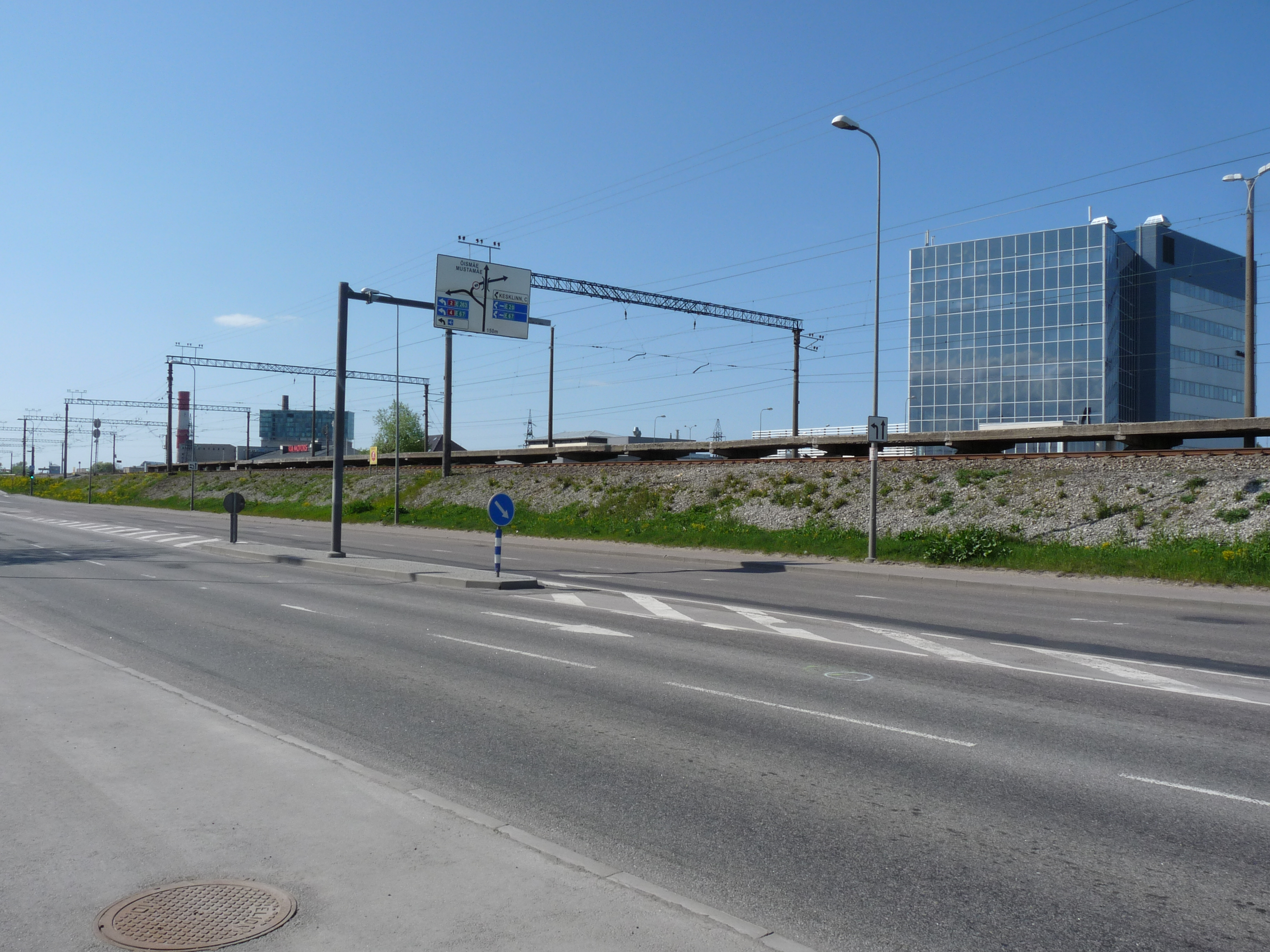 Ülemiste